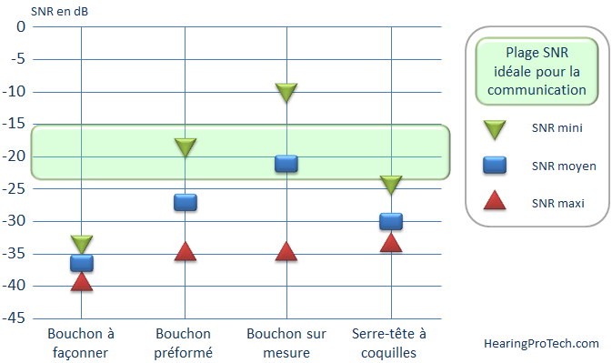 Weakening range ideal for communication